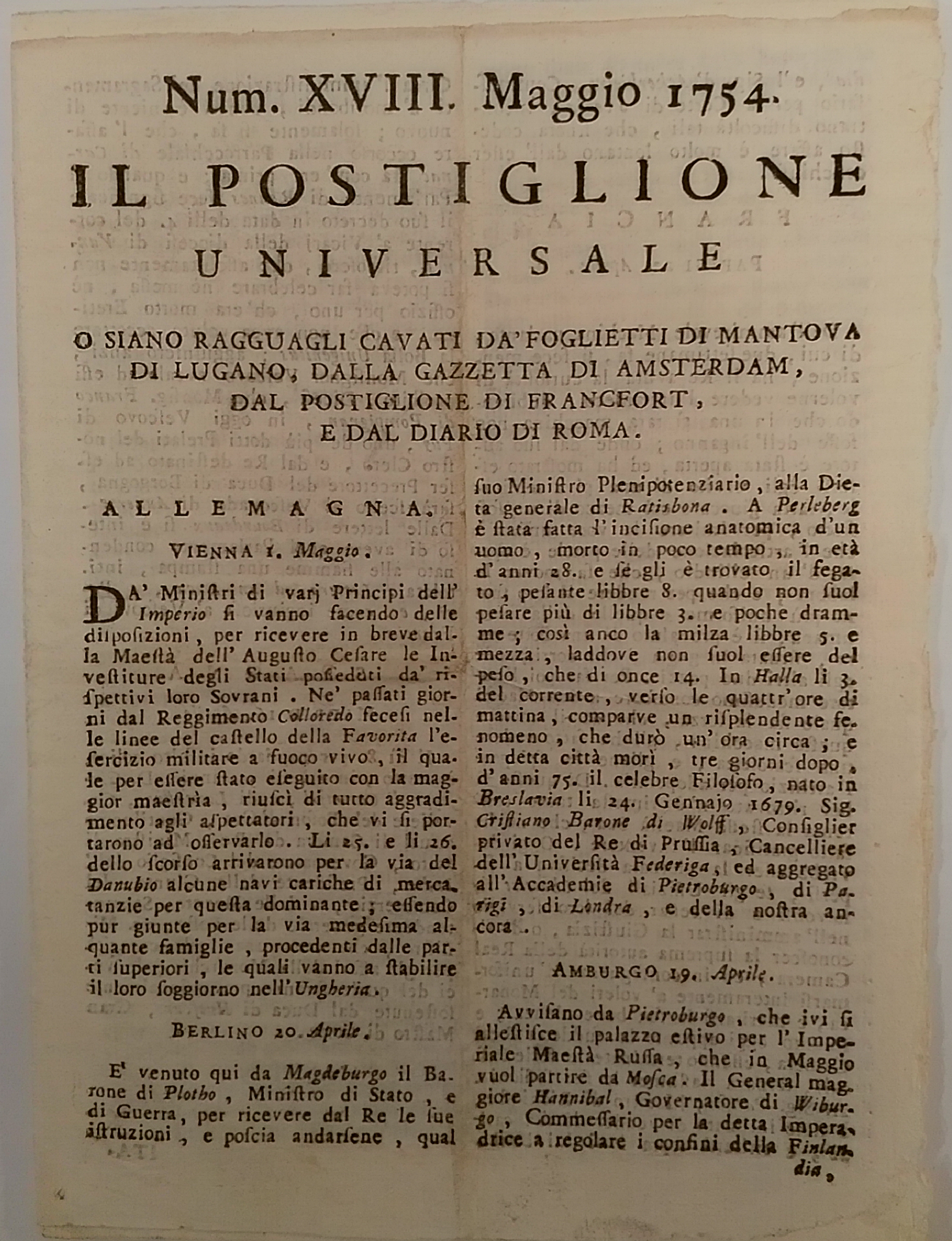 Il Postiglione Universale, newspaper published in Venezia, Number 18. May 1754, later it changed name to "Il Nuovo Postiglione"